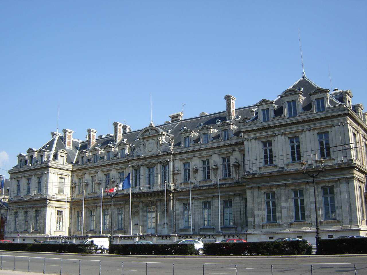 Isère prefecture, Grenoble, France